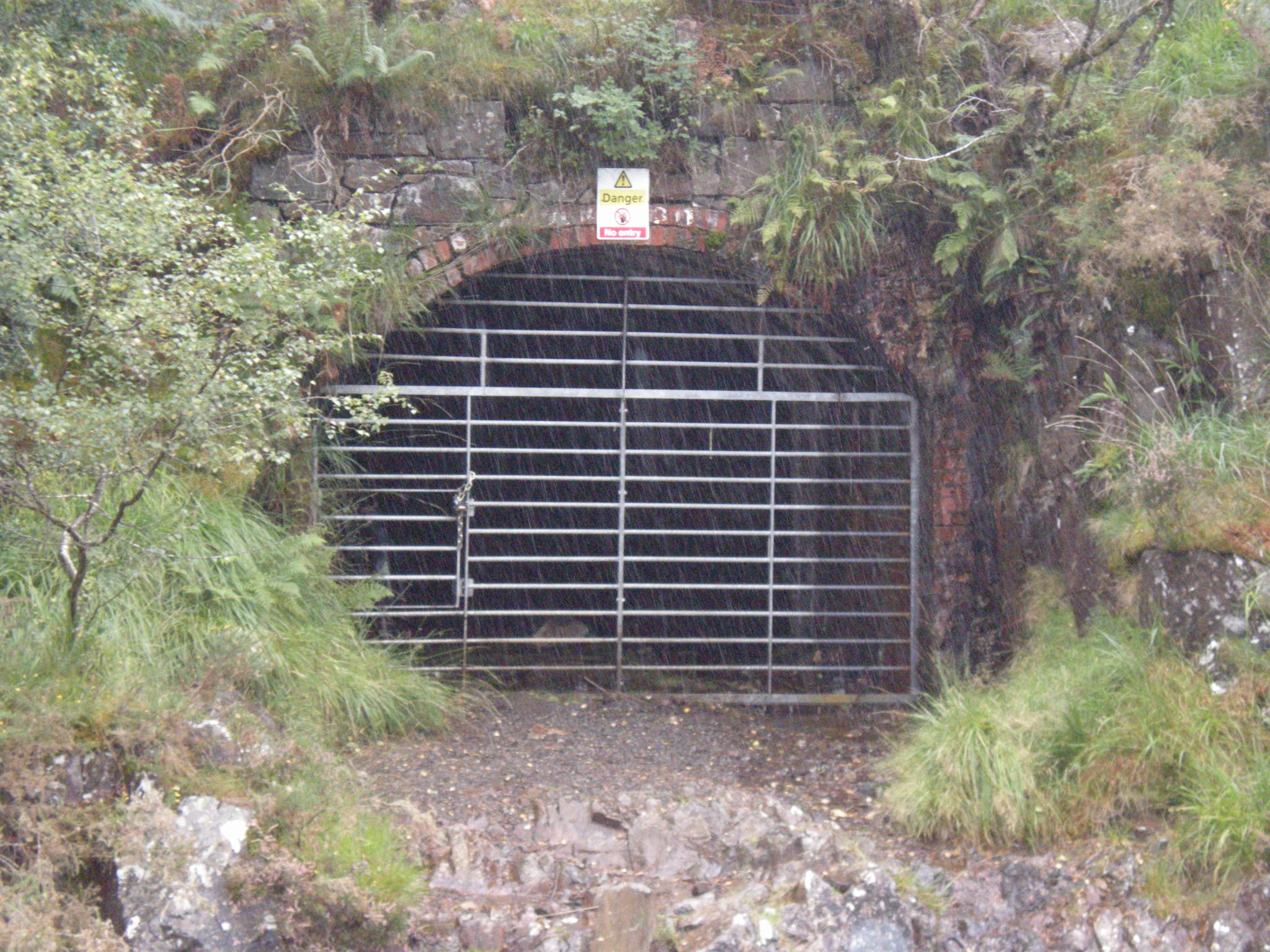 Klondyke mine entrance, near Trefriw, north Wales